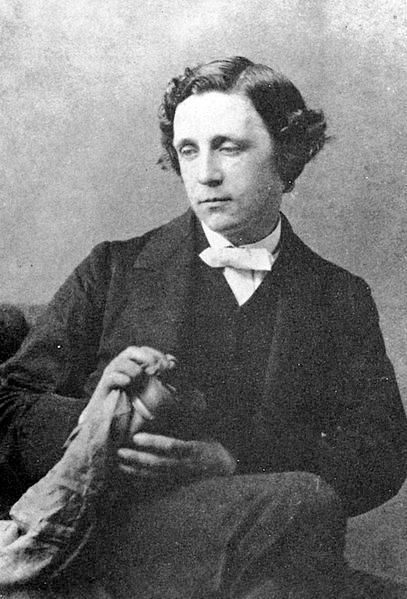 author